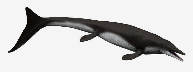 Life reconstruction of Tylosaurus nepaeolicus